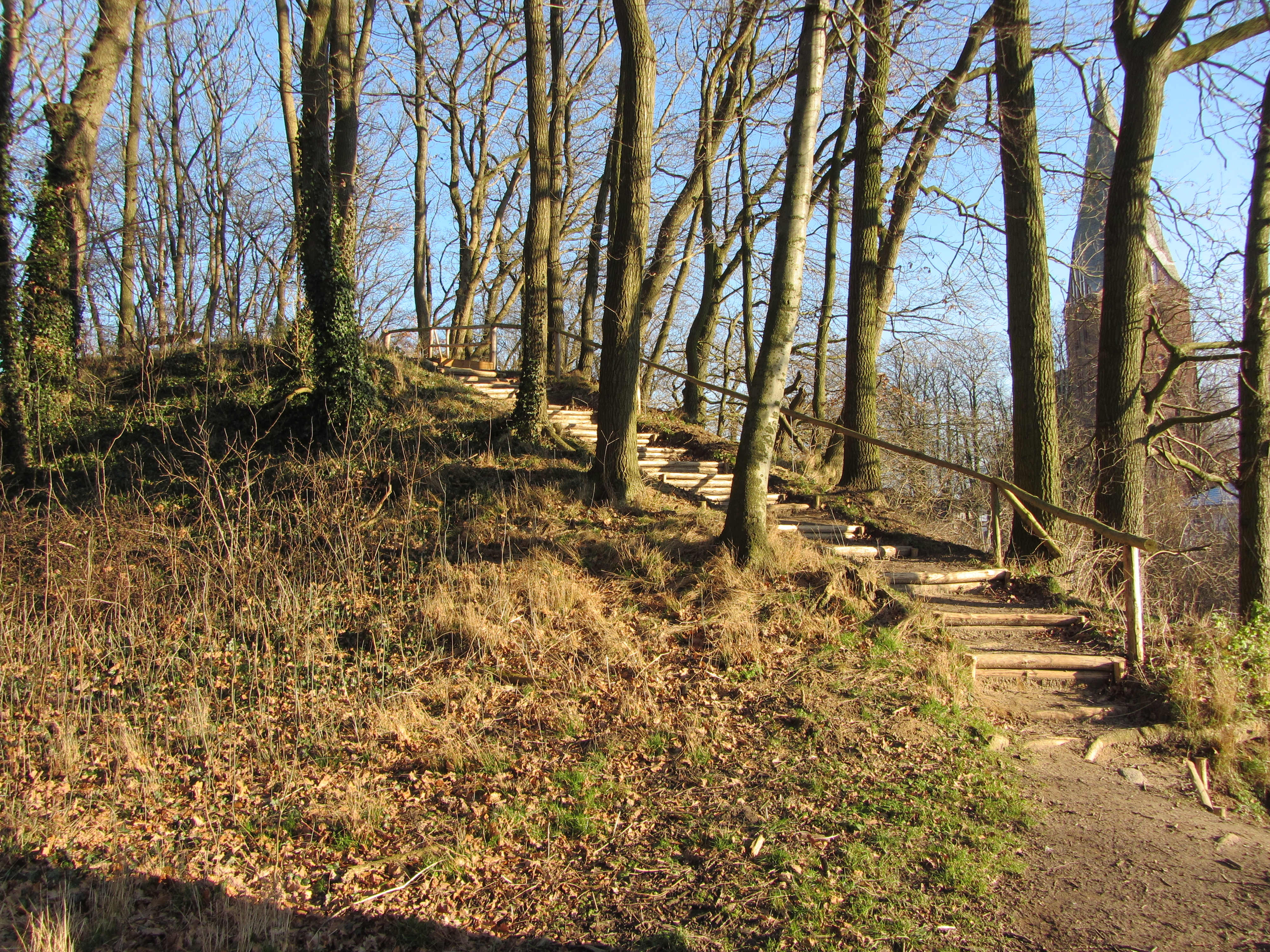 Hill fort in Neubukow, district Rostock, Mecklenburg-Vorpommern, Germany